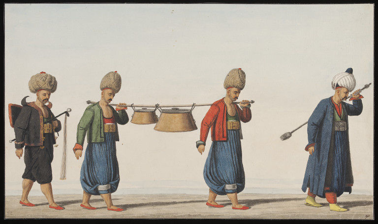 Janissaries with soup kettles and the regimental spoon